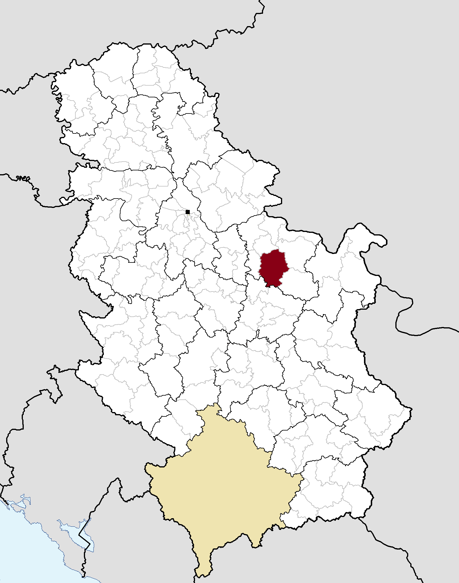 Municipal location in Serbia